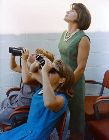 Trudy Cooper, wife of Gordon "Gordo" Cooper, and their teenage daughters, Cam and Jan, watch as the astronaut lifts off during the Gemini 5 mission.